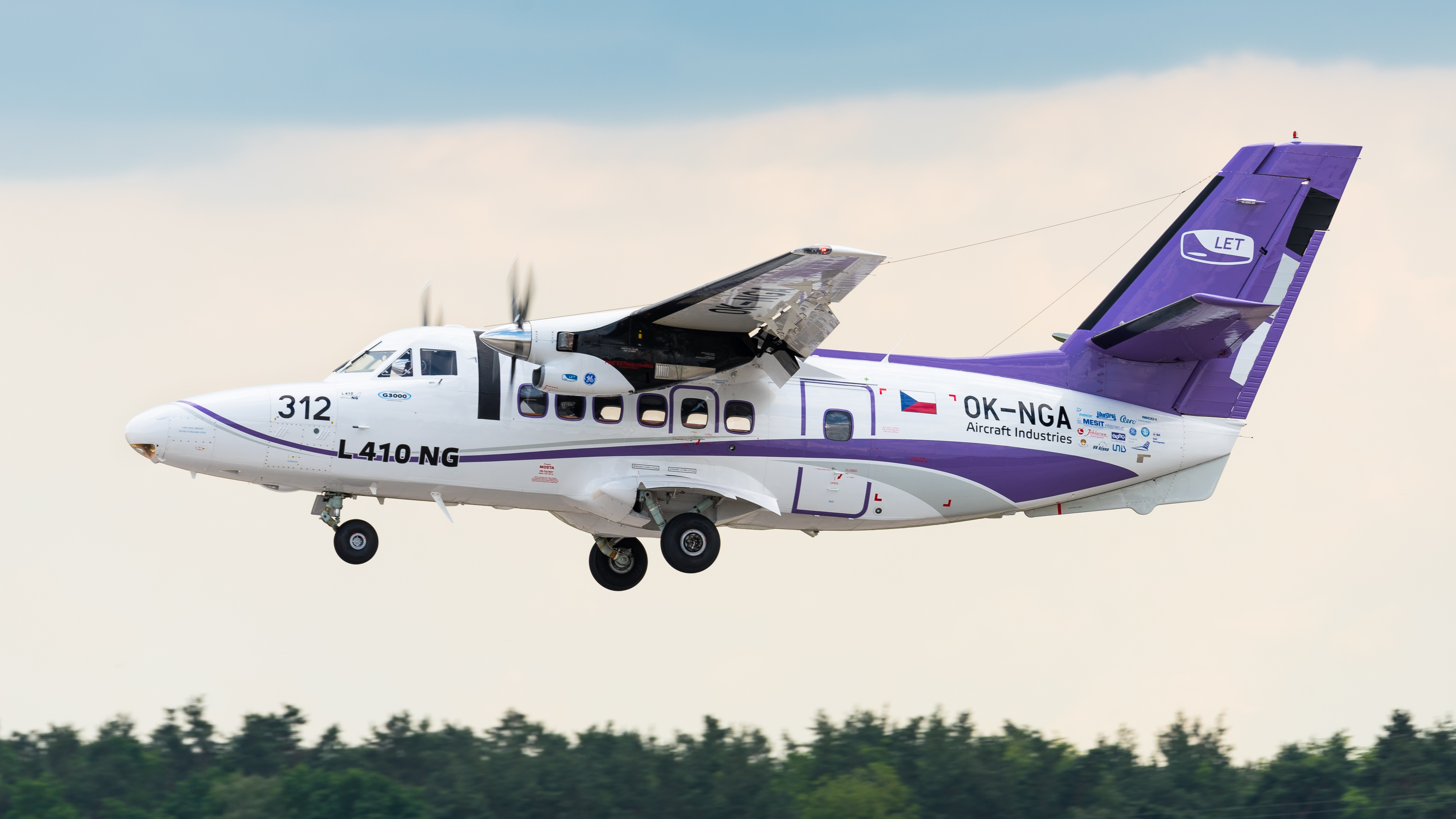 LET Aircraft Industries operated Let L-410NG (reg. OK-NGA, cn 152820/2820) at ILA Berlin Air Show 2016.